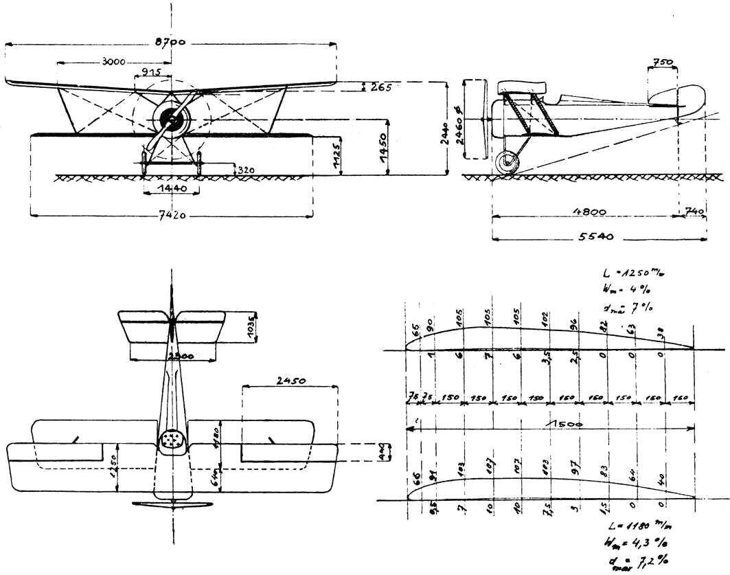 Hanriot HD.1 single seat fighter drawing